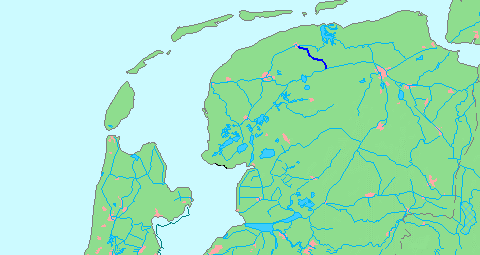 Location of a waterway (river/canal) in the Netherlends